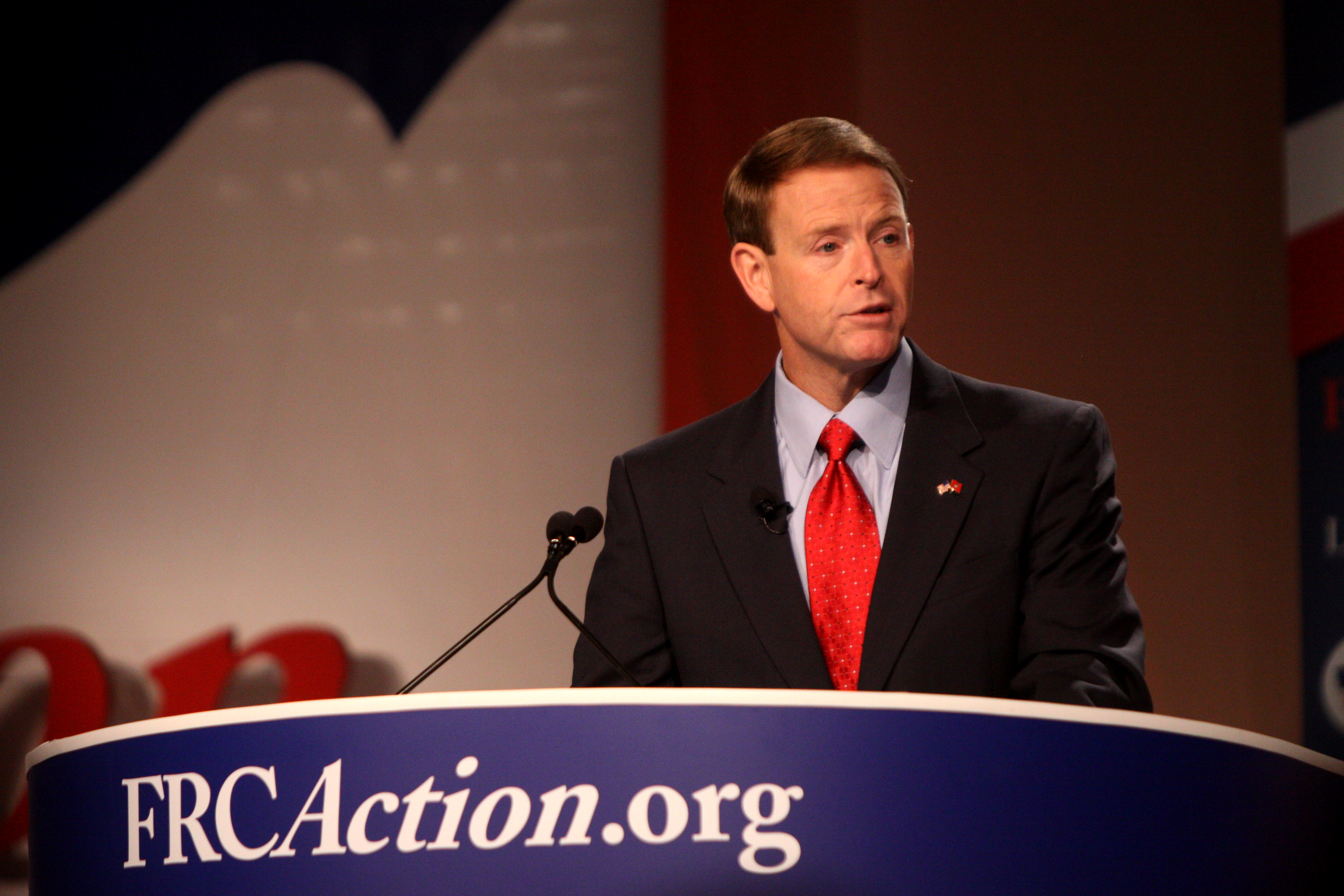 Tony Perkins speaking at the Values Voter Summit in Washington D.C. on October 7, 2011.